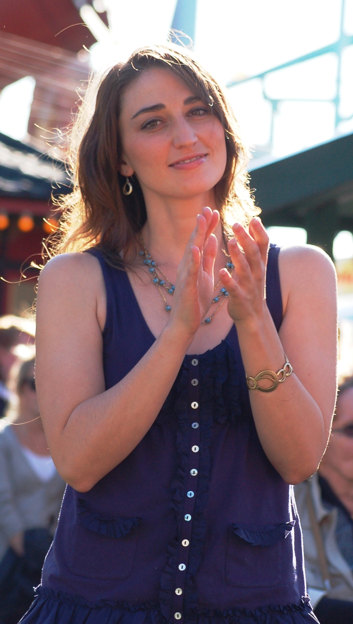 Sara Bareilles at Gröna Lund, Sommarkrysset